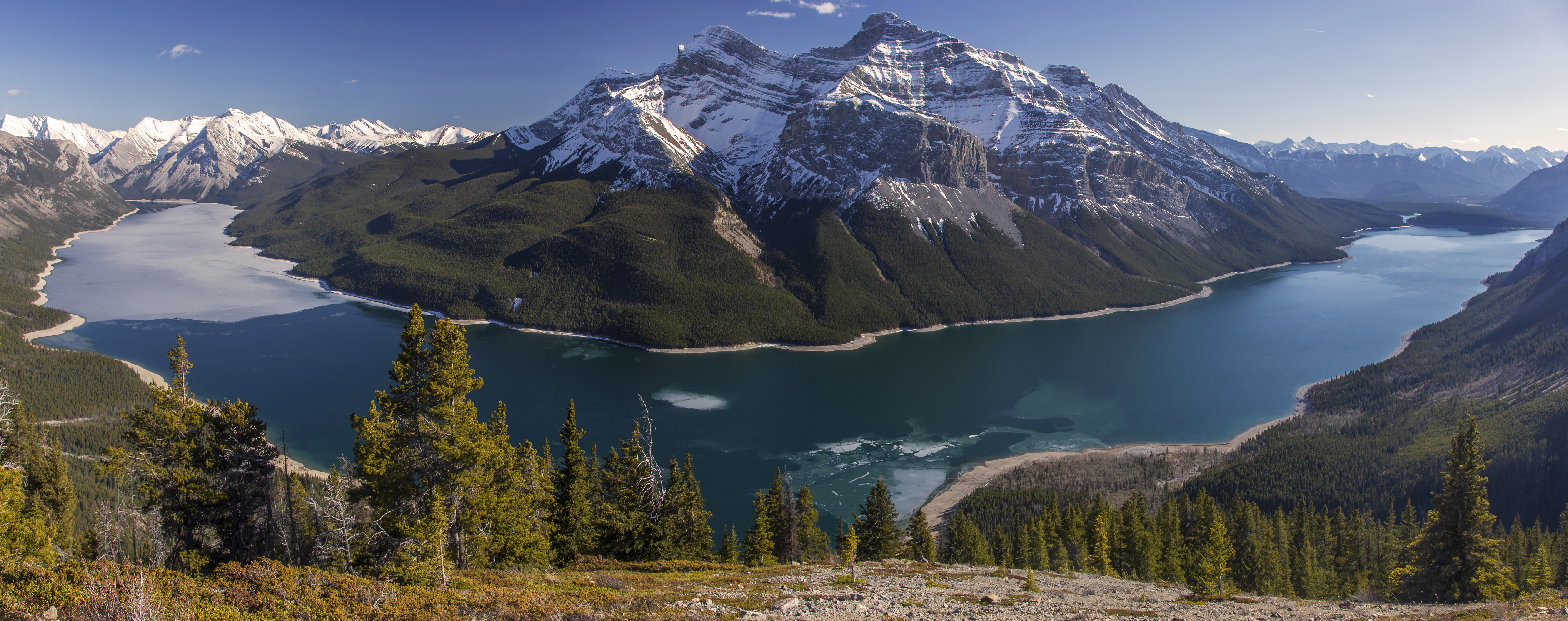 Panoramic View of Lake Minnewanka in Banff National Park from Aylmer Lookout This photo was taken in a protected area in Canada, Wikidata item Lake Minnewanka (Q2671348)